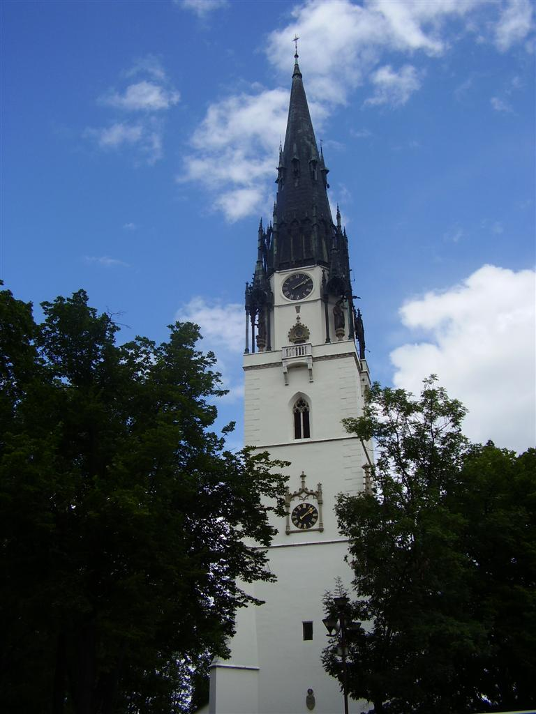 Church in Spišská Nová Ves This medium shows the protected monument with the number 810-612/1 in the Slovak Republic.